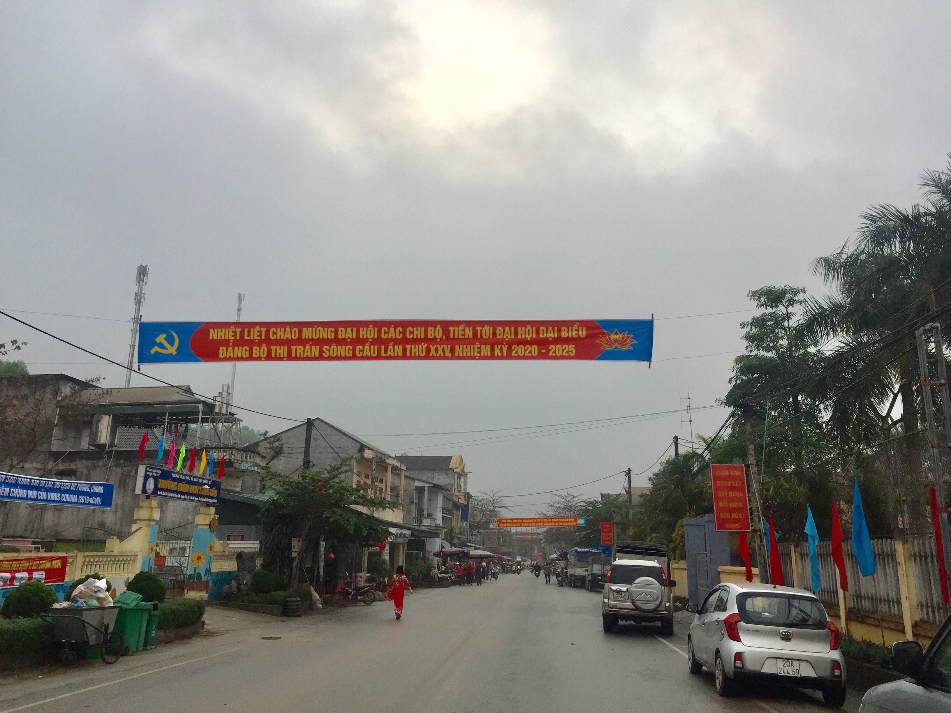 Đường Tân Lập - TT Sông Cầu